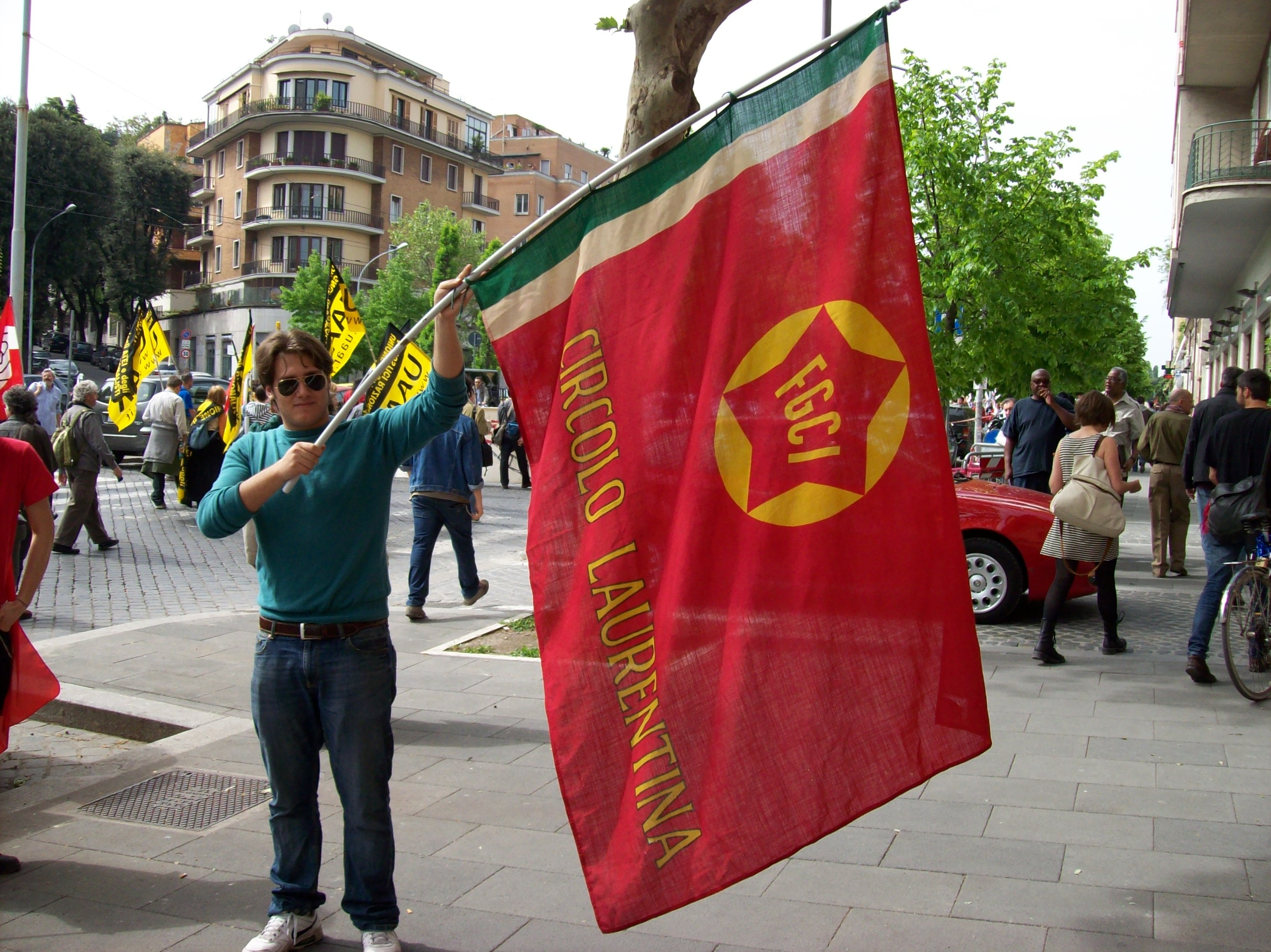 A young Italian communist holding a flag of FGCI - Federazione Giovanile Comunista Italiana (Italian Communist Youth Federation, the youth wing of the Italian Communist Party from 1921 to its folding in 1990) at the 2013 Day of Liberation